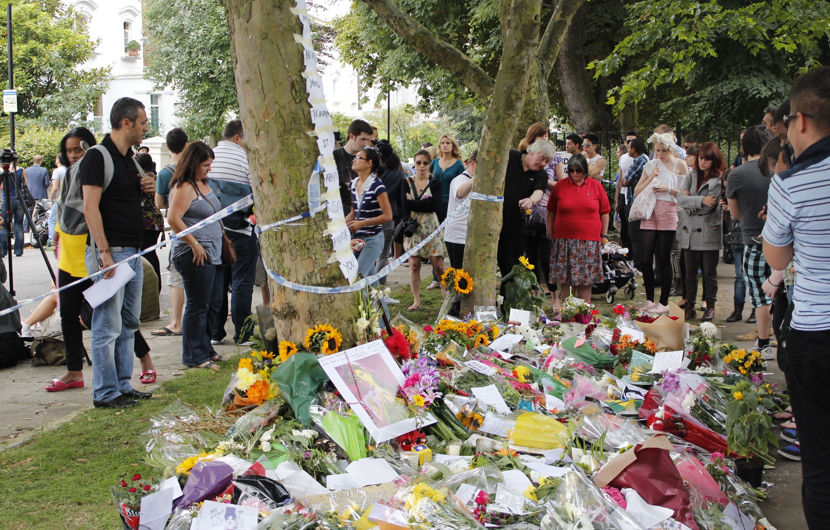 Flowers, photos and other tributes outside the home of Amy Winehouse in Camden, London, after her death on July 23, 2011.